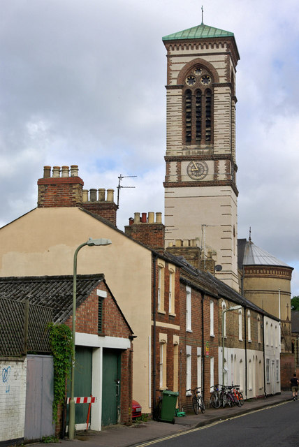 Church of England parish church of St Barnabas, Jericho, Oxford. The church was funded by Thomas Combe, manager of the Oxford University Press, whose headquarters are nearby. St. Barnabas' was designed by Arthur Blomfield, based on a Romanesque basilica. The church was completed in 1869 and the campanile was added in 1872.